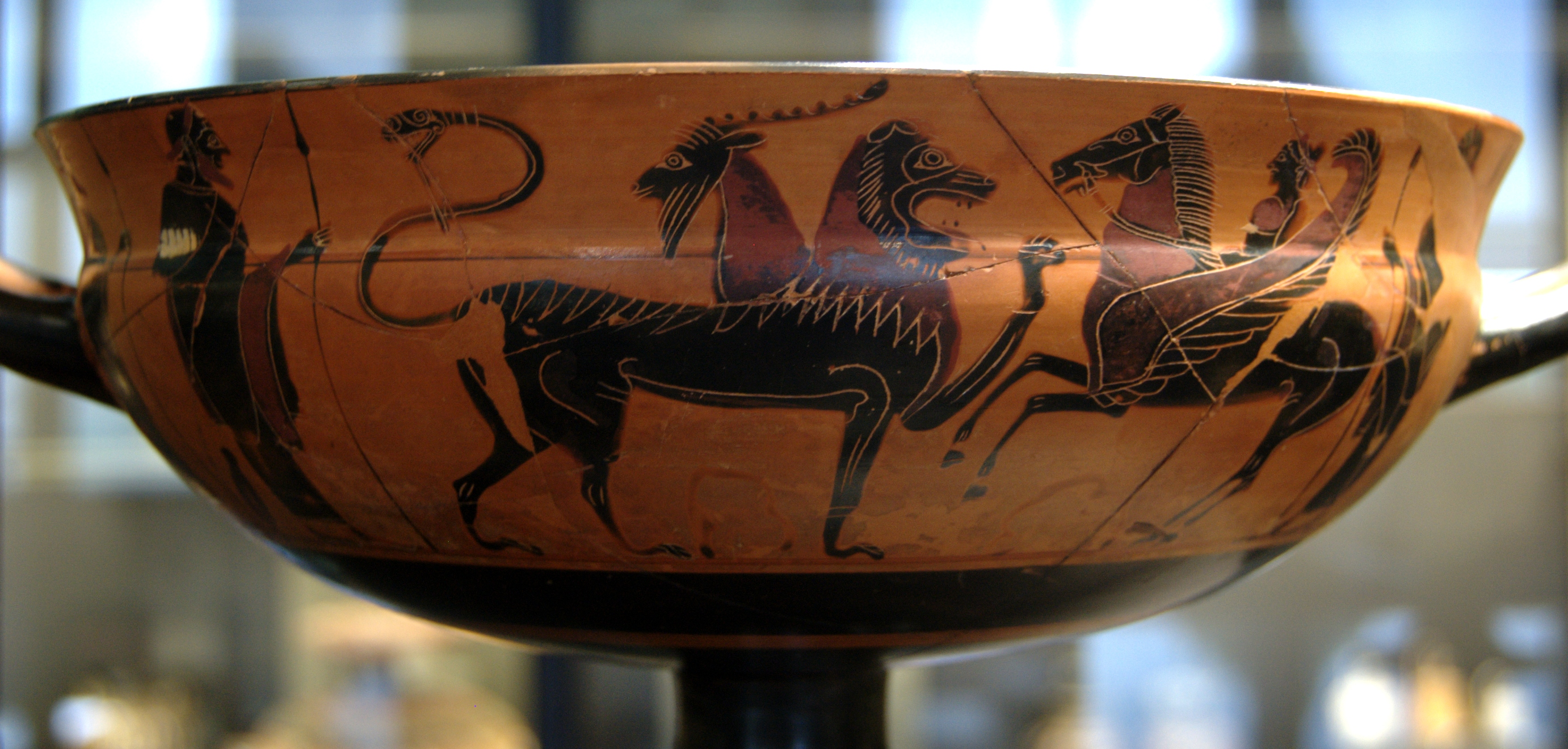 Bellerophon fighting the Chimera. Side A of an attic black-figured “overlap” Siana cup, ca. 575–550 BC. Found in Camiros (Rhodes).